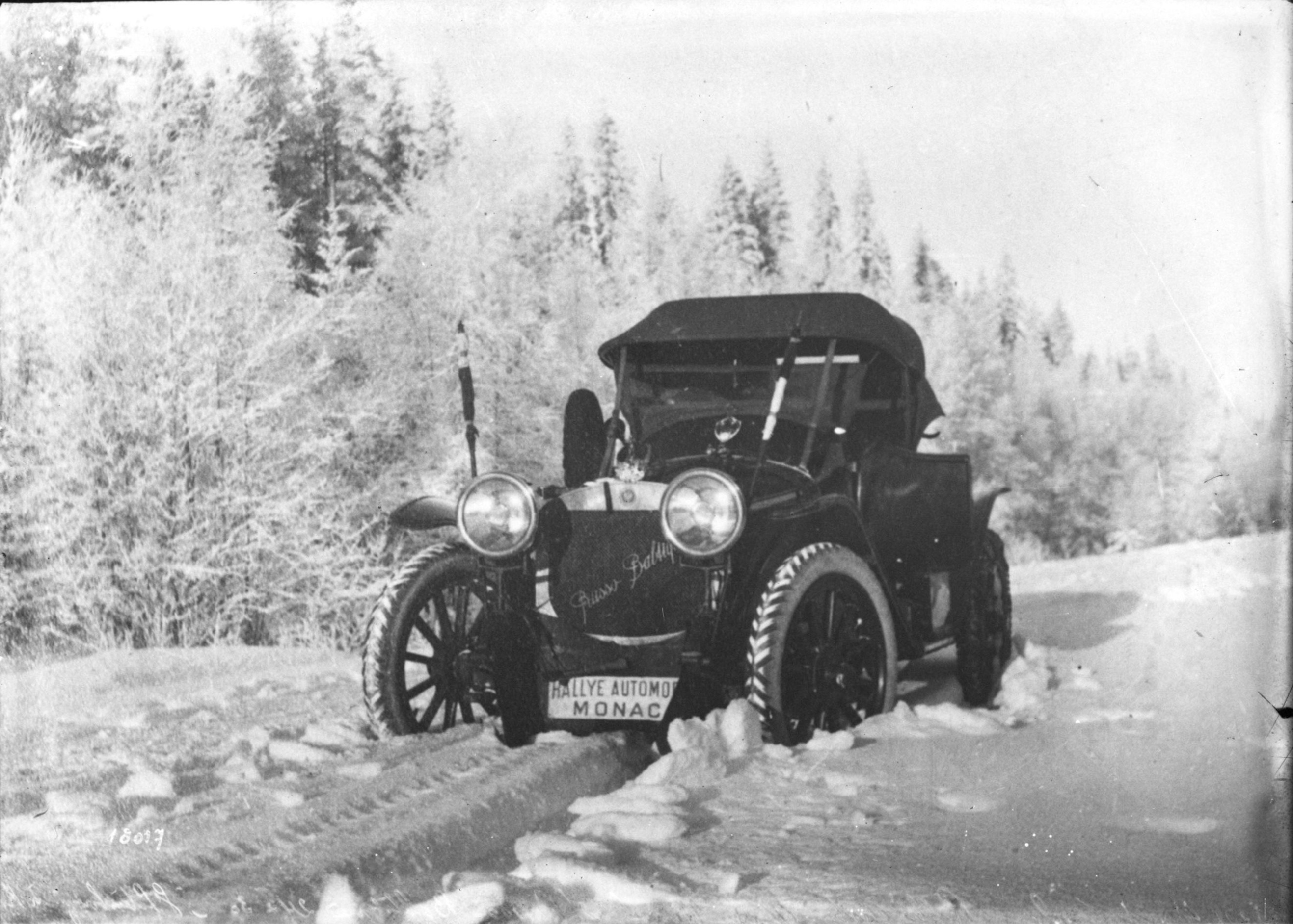 Entry #6 in 1912 Rallye Monte Carlo was a Russo-Baltique "Monako" Torpédo S24-55 with 4,939 ccm engine[1]. It was driven by Andrej Platonovics Nagel and Vagyim Alekszandrovics Mihajlov. They had started in St. Petersburg on January 13, and arrived on January 23, in 9th place.[2].[3]